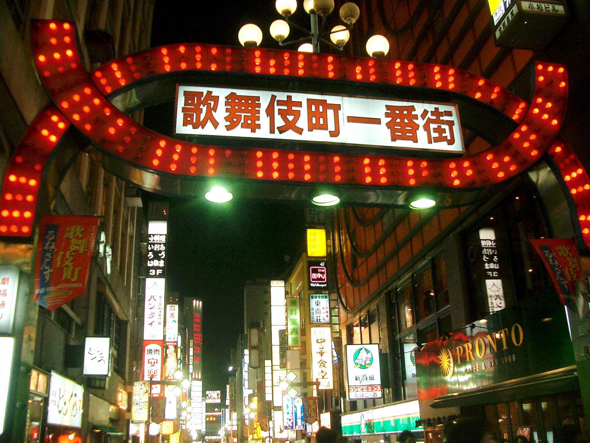 the gate to Kabukicho (歌舞伎町) at night